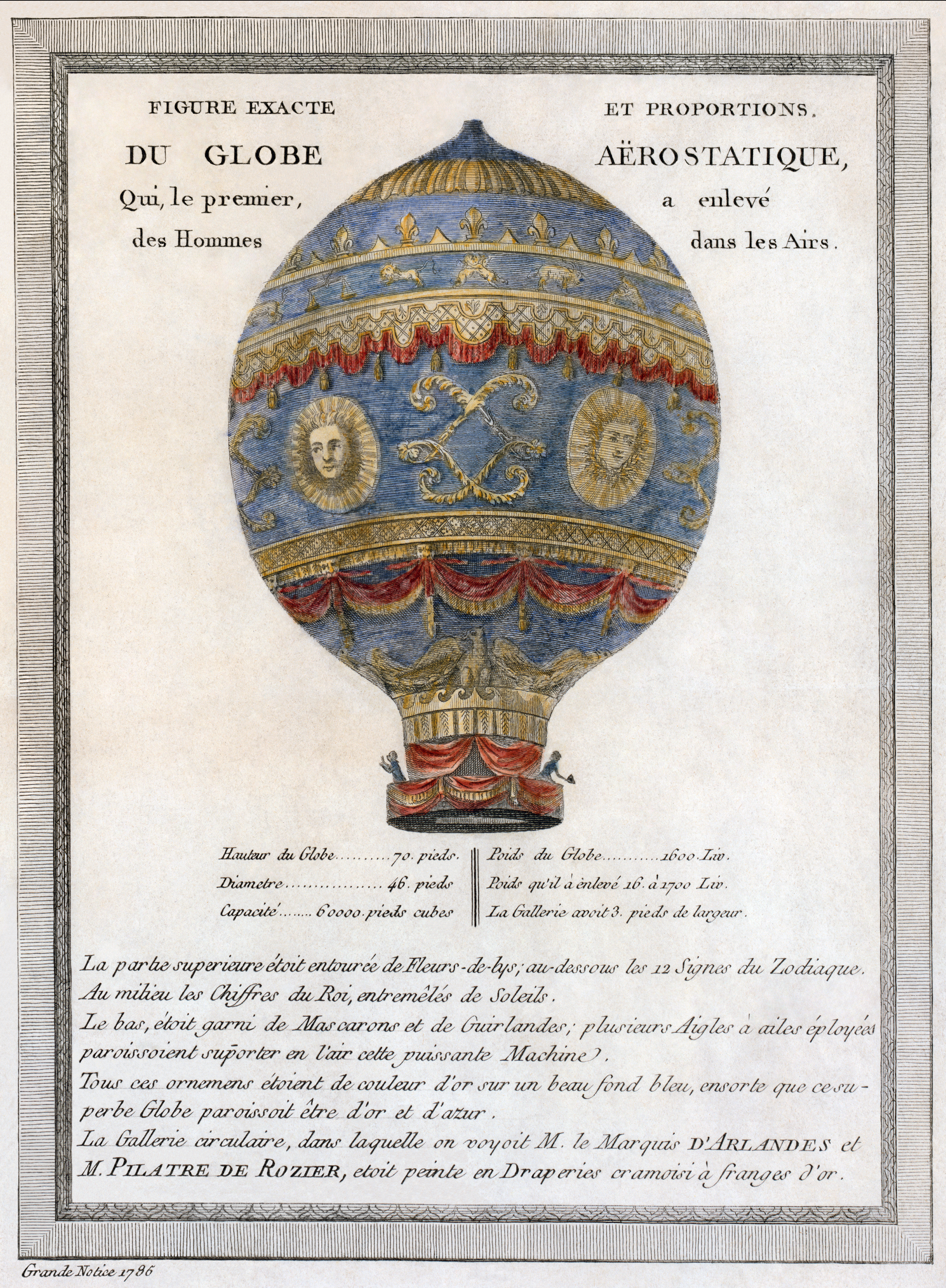 1786 description of the historic Montgolfier Brothers' 1783 balloon flight. Illustration with engineering proportions and description. Translation: Figure and exact proportions of the "Aerostatic Globe", which was the first to first carry men through the air. Engineering data is provided in prerevolutionary French units: Height of the Globe: 70 pieds Weight of the Globe: 1600 Livres Diameter: 46 pied Lifting capacity: between 1600 and 1700 livres Volume: 60000 pieds cubes Gallery: 3 pieds wide These units, while translating literally to "feet" and "pounds", varied regionally and the version was not specified by the engraver. If Parisian units were used (by far the most likely) then this translates to metric and Imperial measurements as follows: Height of the globe: 70 pieds du roi = 22.7 metres = about 75 ft Weight of the globe: 1600 Livres = 780 kg = 1700 lb Diameter: 46 pieds du roi = 14.9m = 49 ft Lifting capacity: 1600-1700 livre = About 780-830 kg = about 1700-1800 lb. Volume: 60000 pieds cubes = ~2000 cubic metres or 2,000,000 Litres = 73000 cubic ft. Gallery: 3 pied du roi = 1 metre= 3 ft Remainder of translation: The top portion was surrounded by fleurs-de-lys, with the twelve zodiac signs below. In the middle portion were images of the king's face, each surrounded by a sun. The bottom section was filled with mascarons and garlands; Several eagle's wings appear to support this powerful machine in the air. All of this ornamentation was gold on a beautiful blue background, so that that this superb globe appeared to be gold and azure. The circular gallery, in which we see the Marquis D'Arlandes and Mr. Pilatre de Rozier, was covered in crimson draperies with gold fringes.